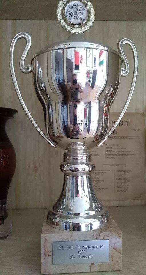 Dorog won this cup in Germany in 1991 where involved some European classic team like Kaiserstlautern or Feyenoord.